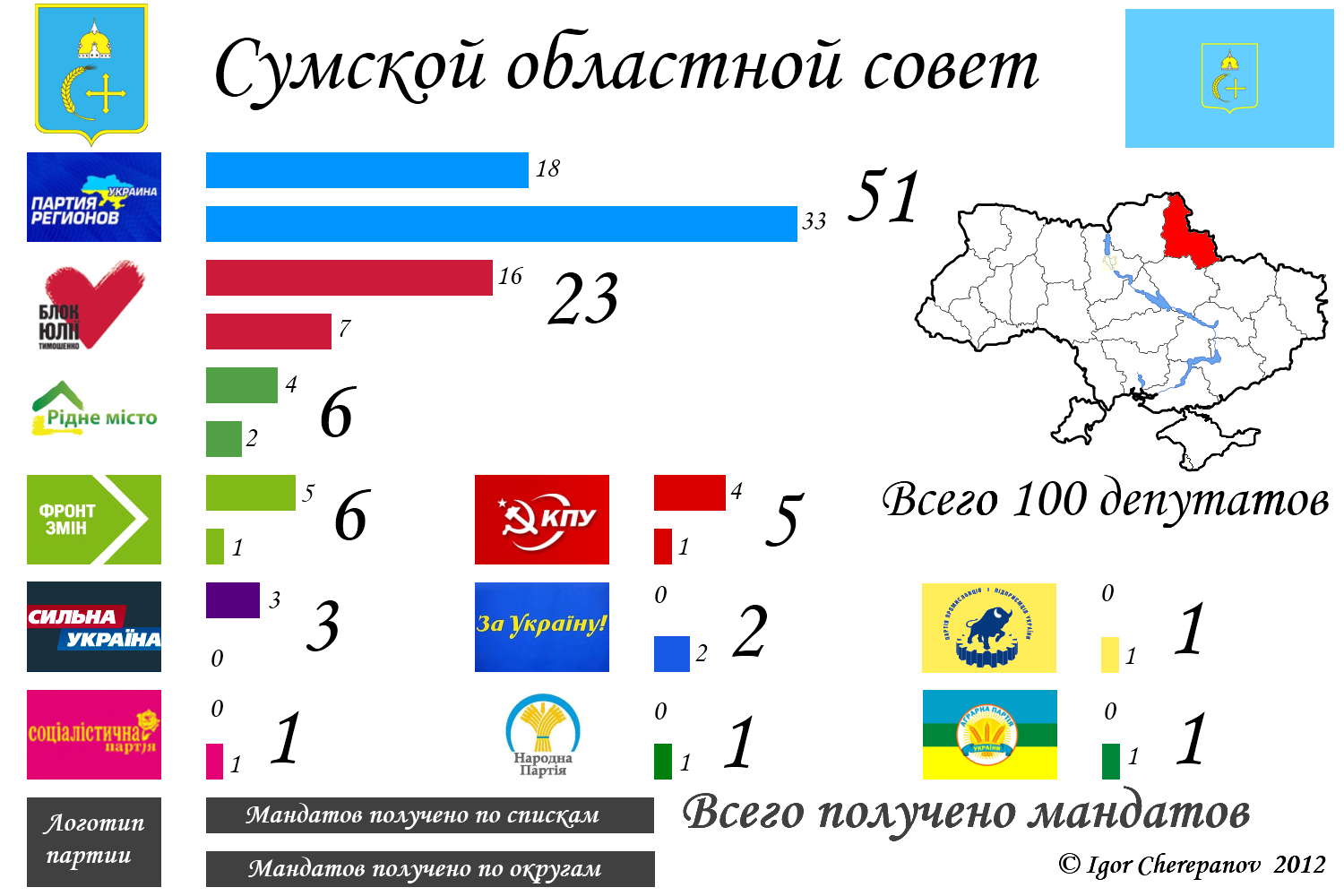 Results of Sumy Oblast local election 2010